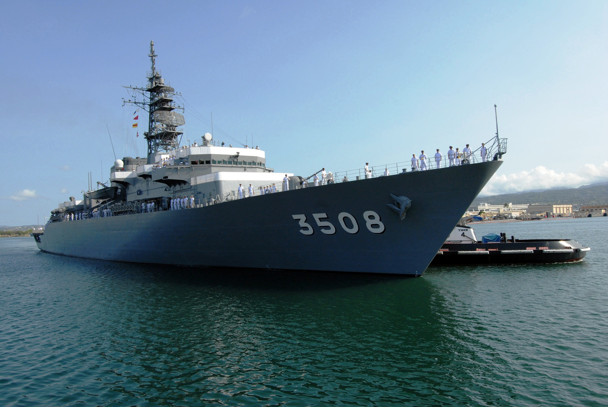 Tugboats assigned to Naval Station Pearl Harbor assist the Japanese Training Squadron (JTS) ship JDS Kashima (TV 3508) as she makes her way pierside.